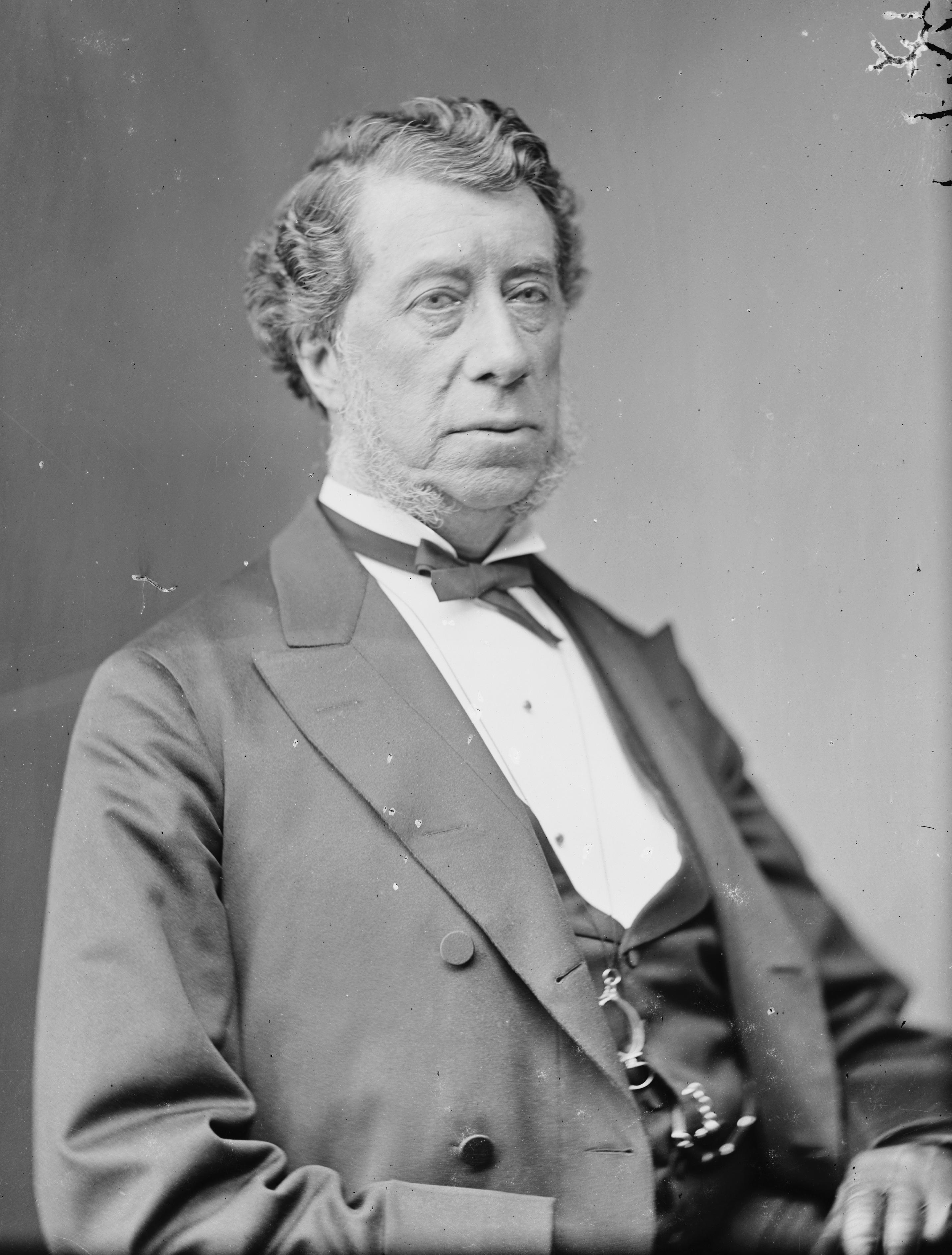 Hamilton Fish. Library of Congress description: "Fish, Hon. Hamilton"